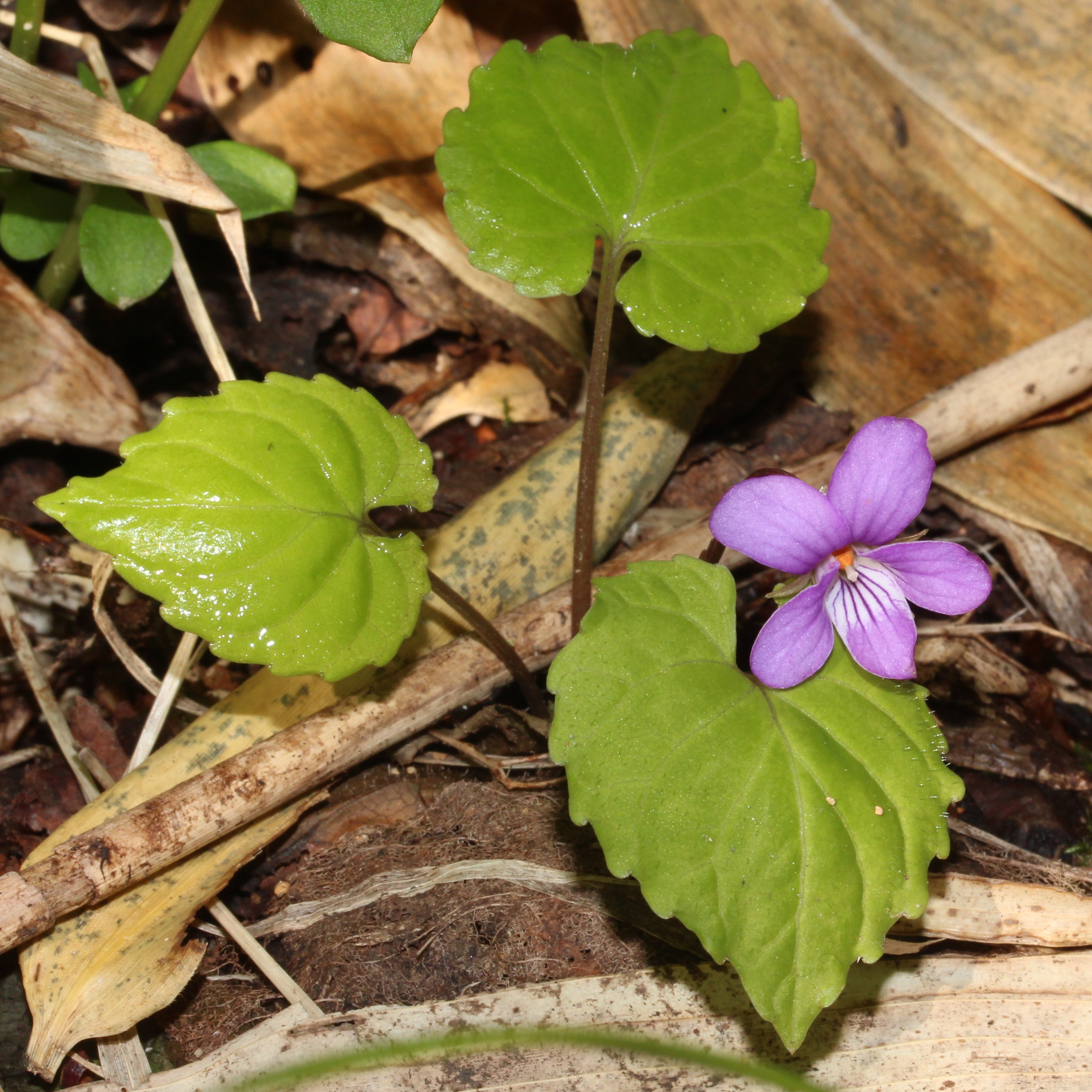 Viola selkirkii in Mount Haku, Shirakawa village, Gifu prefecture, Japan.